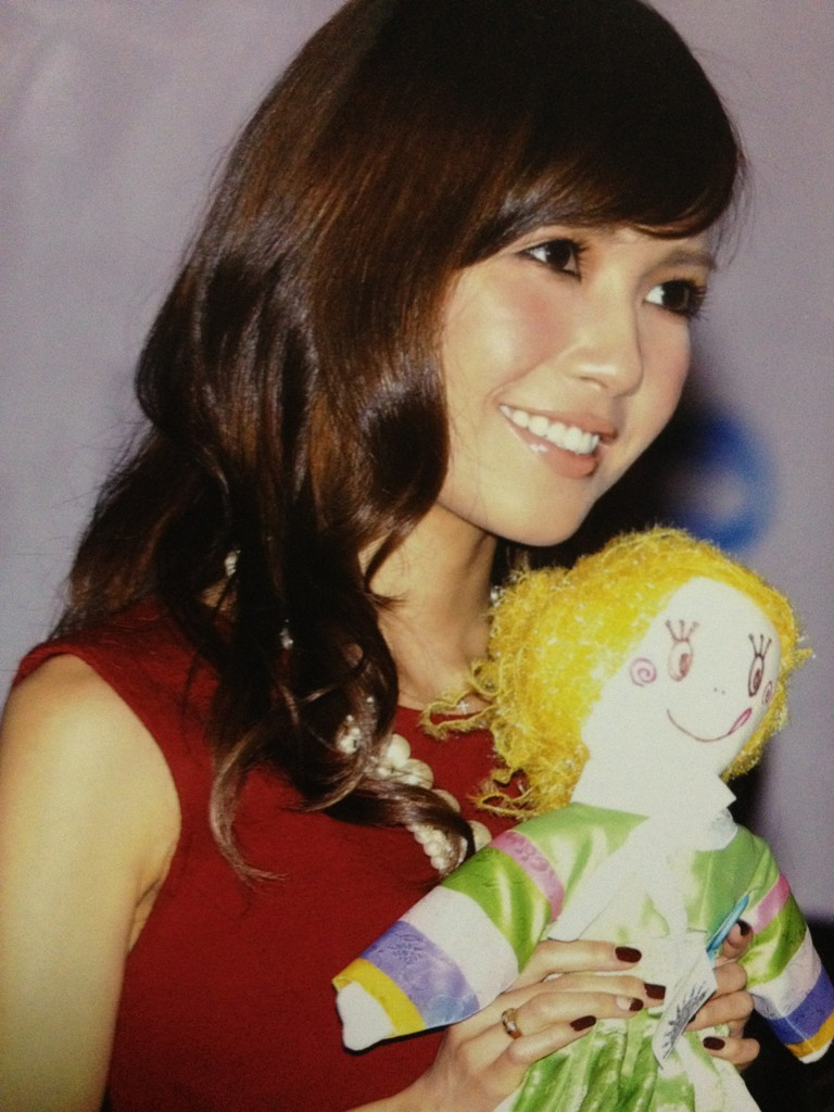 Misako Uno and Awoo doll 'UNO' at the Asia Song Festival with UNICEF in 2011.